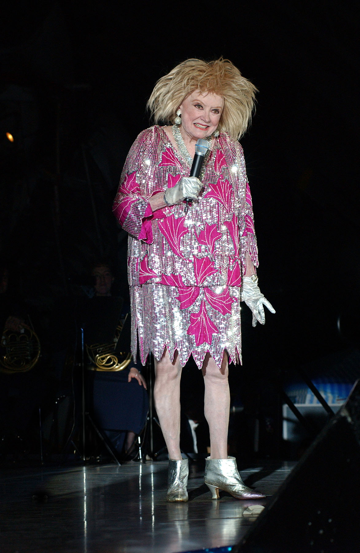 DAYTON, Ohio -- Phyllis Diller, a stand-up comedienne, actress and voice artist, performed at the museum in 2002 as part of a ceremony honoring Bob Hope. An exhibit dedicated to Hope is located in the museum’s Kettering Hall. (U.S. Air Force photo)